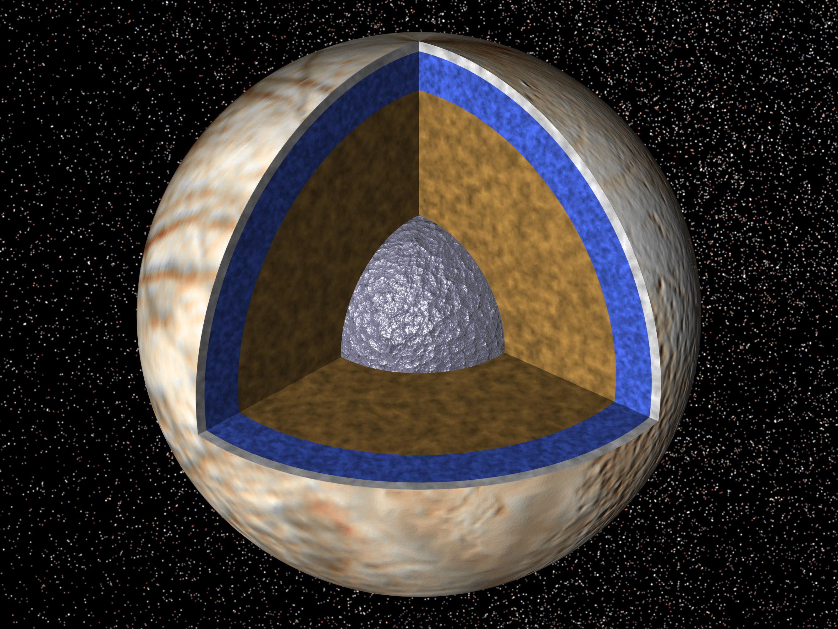 Possible internal structure of Jupiter's moon Europa